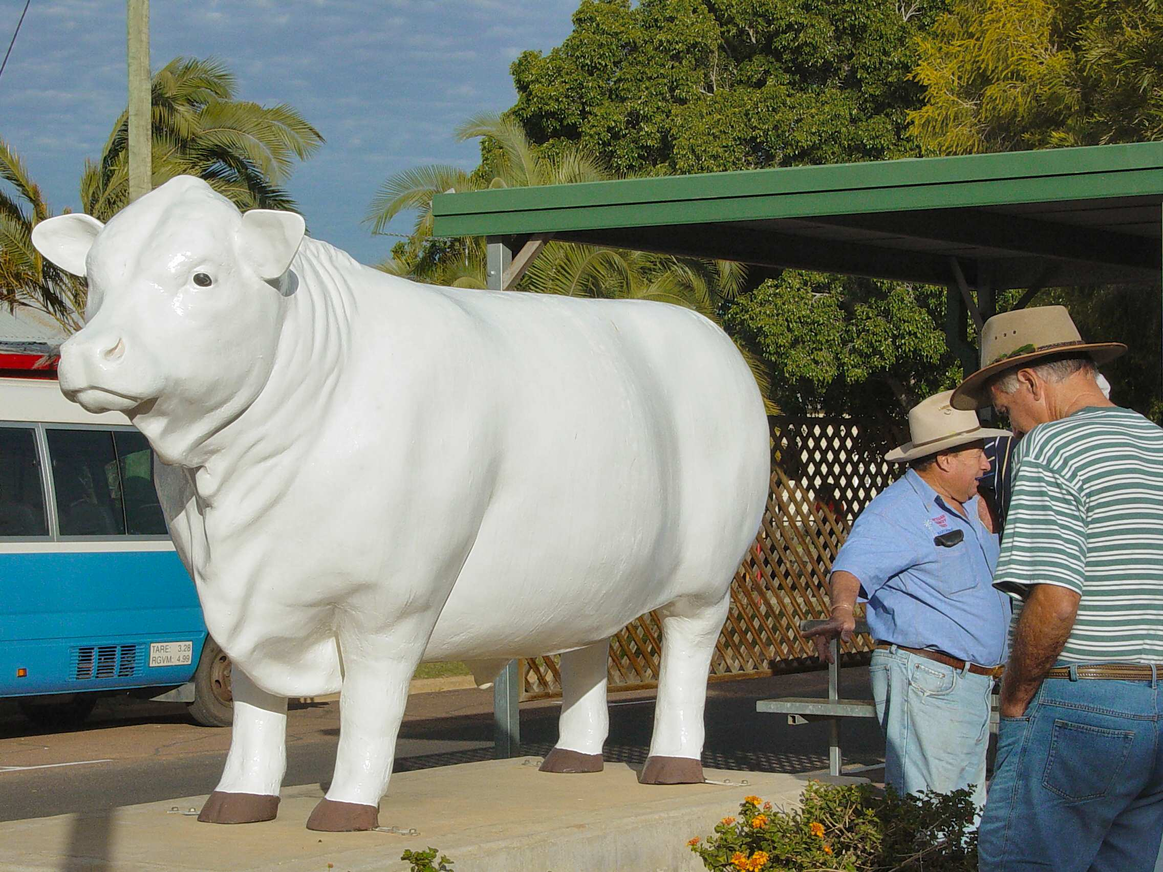 Photo Taken and Supplied by Brian Voon Yee Yap. A white bull statue in Aramac. This bull was stolen by cattle thieves and taken to Adelaide.